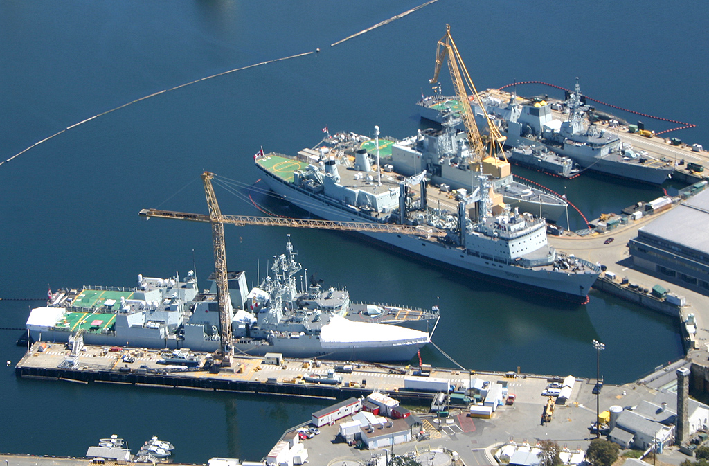 Aerial photograph of Canadian warships docked at CFB Esquimalt in Esquimalt, B.C., Canada. Photo by Duke, July 2005.